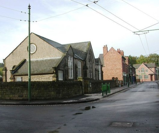 Black Country Living Museum, primary school